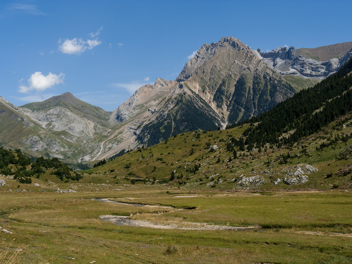 Valle de Otal This is a photography of a Site of Community Importance in Spain with the ID: ES2410006. Natura2000 entry, EEA entry